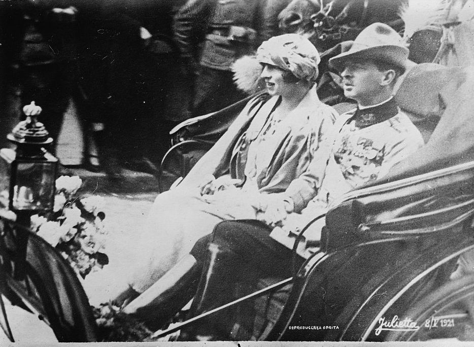 King Carol II and Queen Helen of Romania (in 1921 only crown princes)